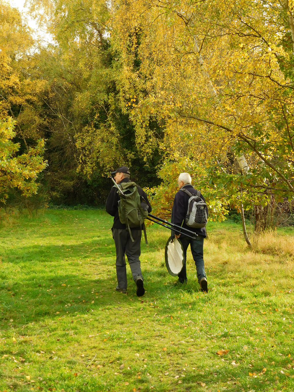 Entomologists in Gunnersbury Triangle in autumn sunshine